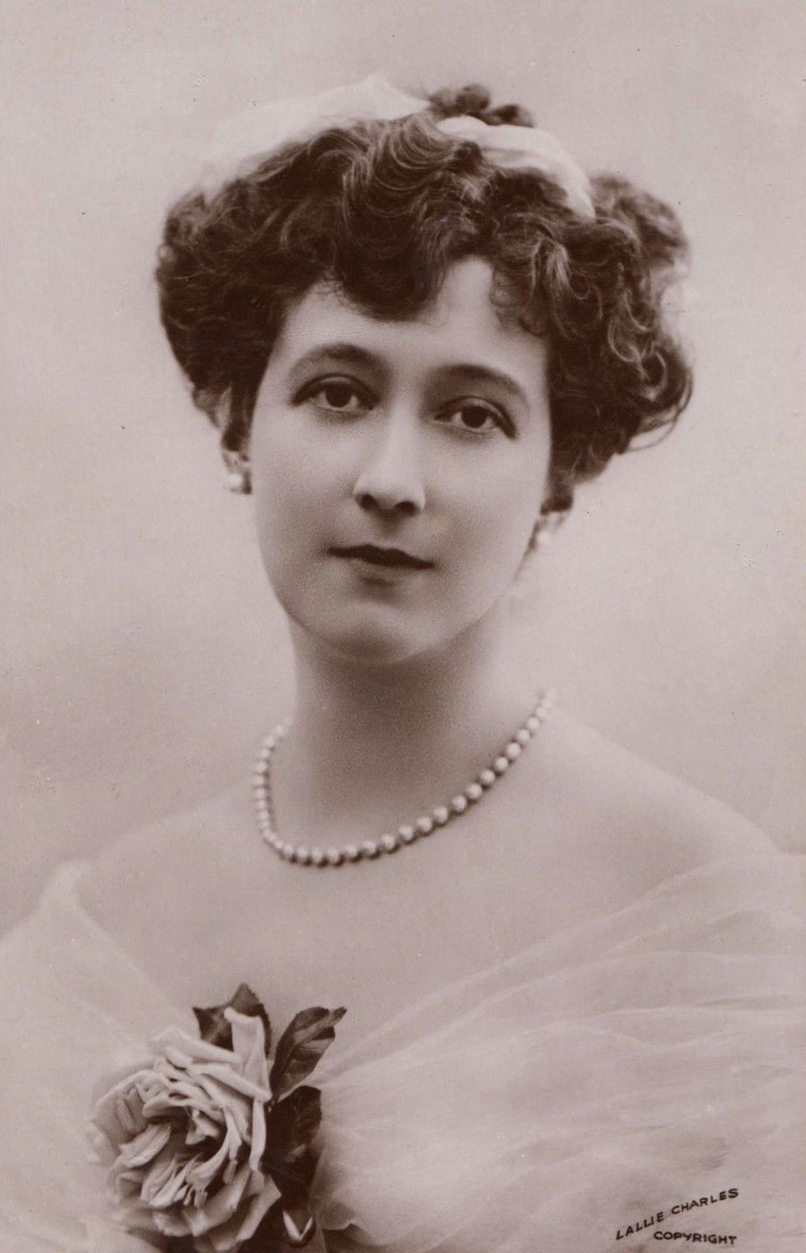 Photograph of actress Ellis Jeffreys cropped from a Rotary postcard.